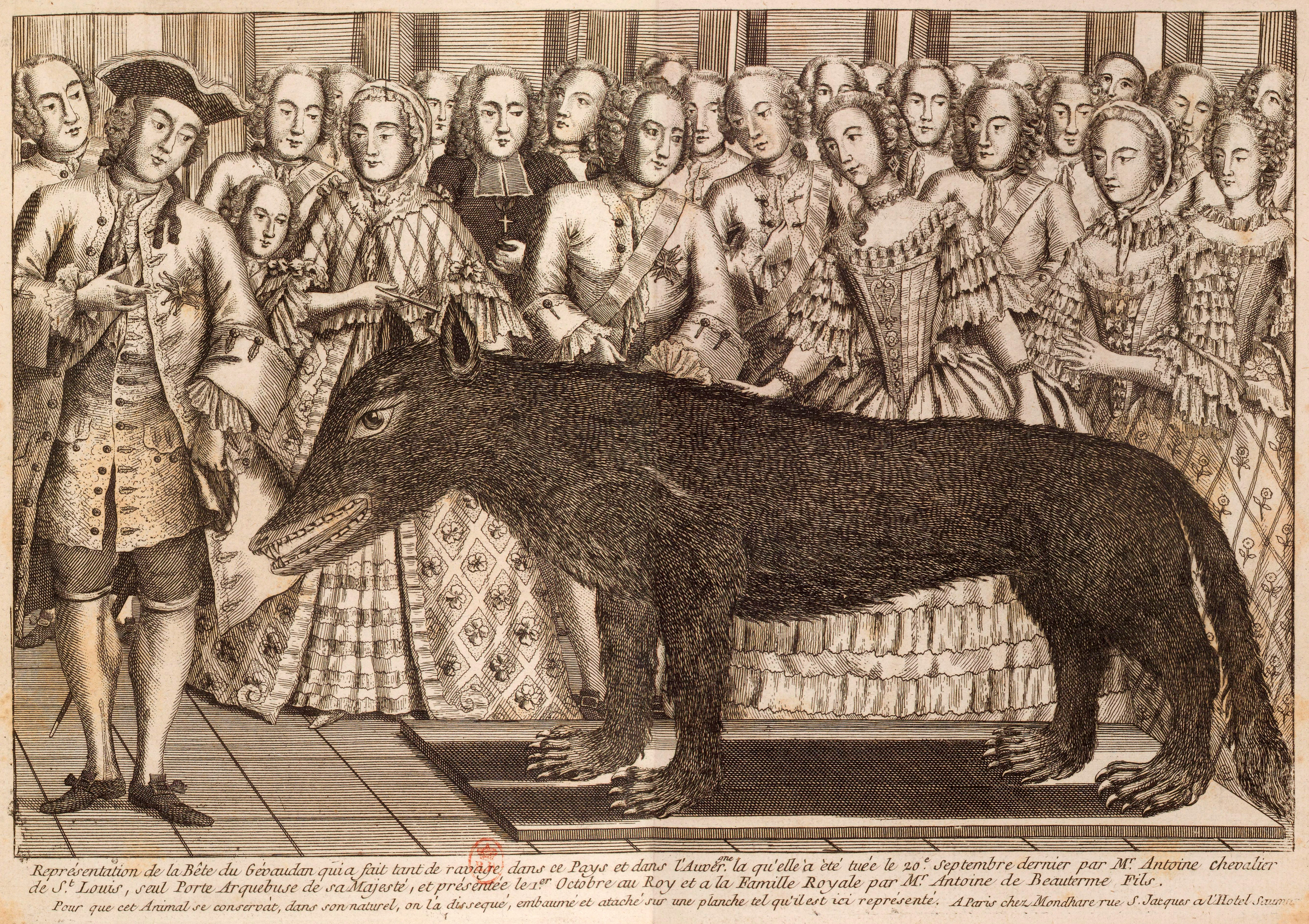 Wolf of Chazes, shot by M. François Antoine de Beauterne, displayed at the court of Louis XV.